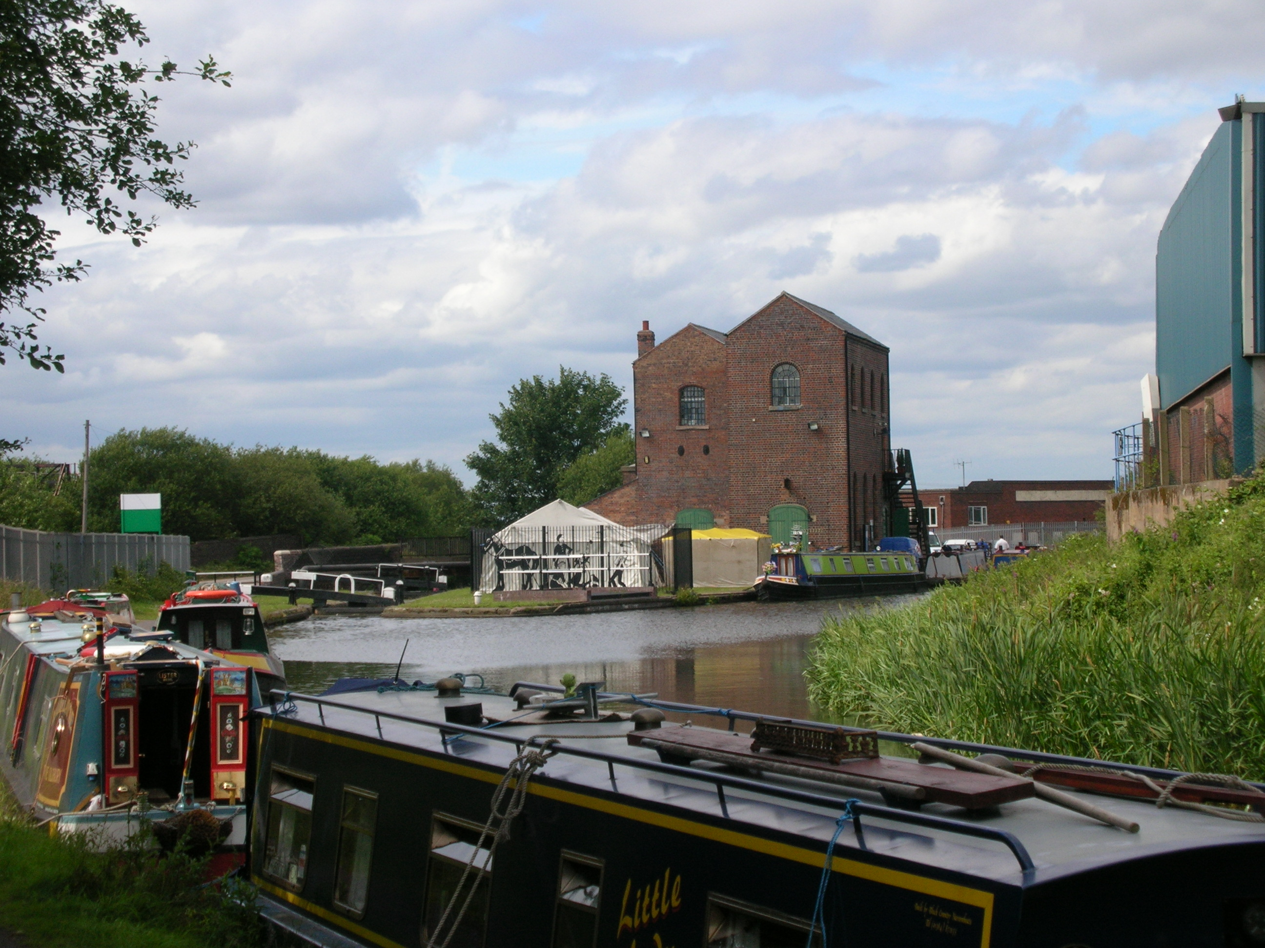 Boats assembling for a Birmingham canal Society event at the Titford Engine House (Titford Pumphouse) on the highest part of the Birmingham Canal Navigations. To the left is the top lock of Titford Locks (also know as Oldbury Locks) on the Titford Canal, which runs behind the camera to Titford Pool. To the right is the Tat Bank Branch (not navigable).